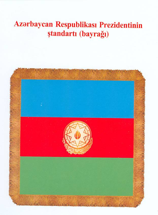 Standard of the President of Azerbaijan.